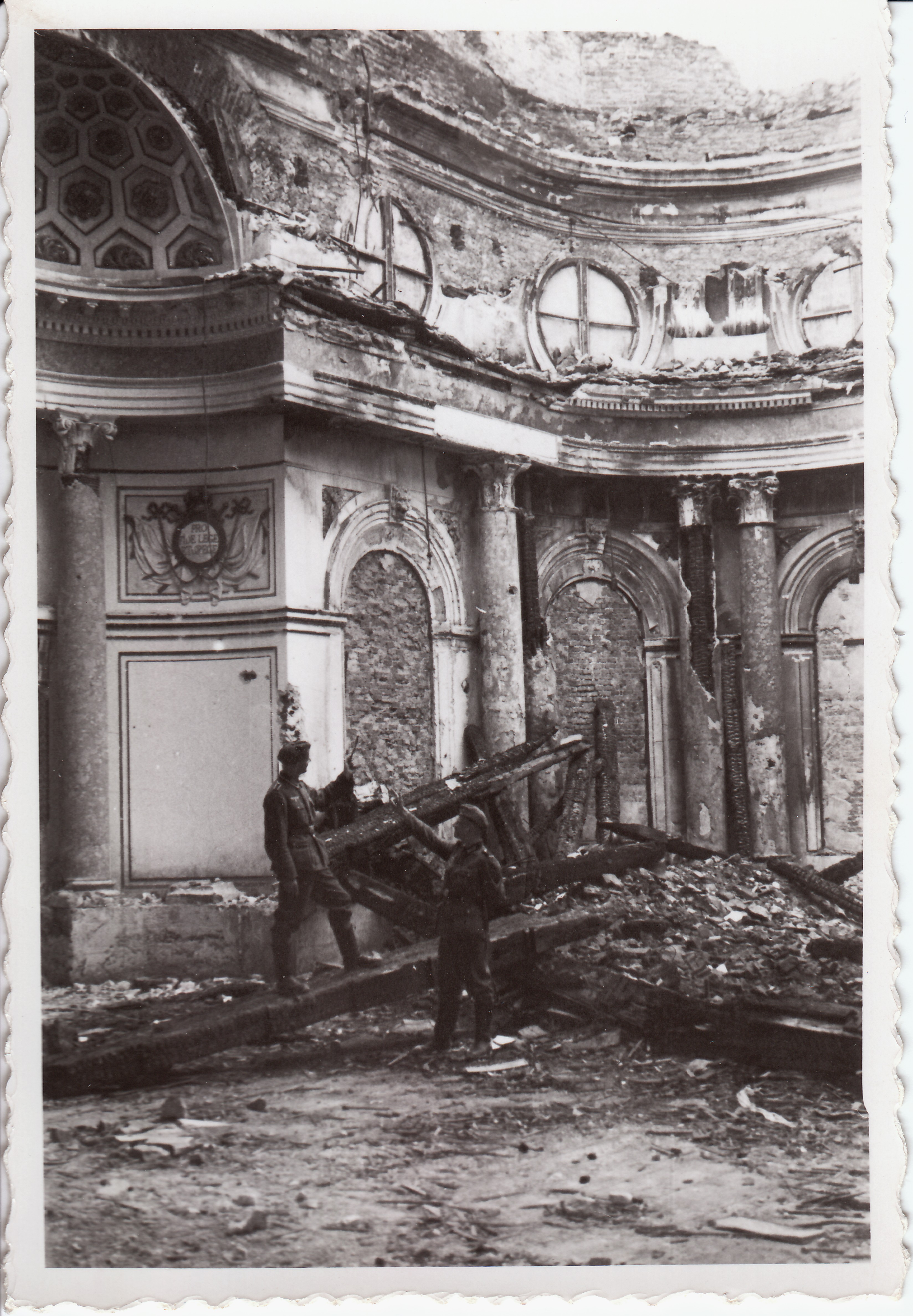 Destroyed Royal Castle in Warsaw, July 1940